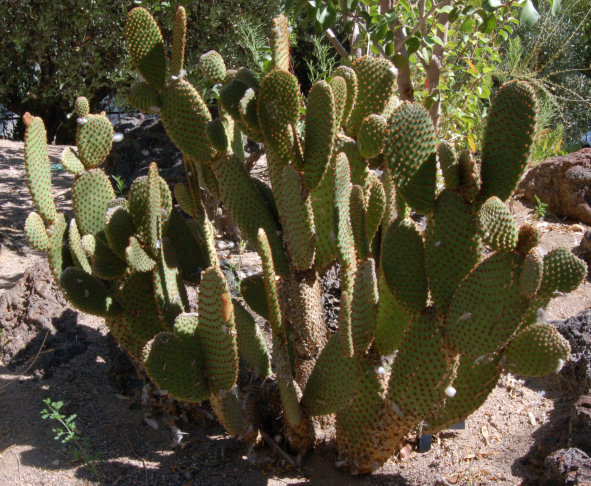 Rabbit Ears Cactus -- Opuntia microdasys (red form)